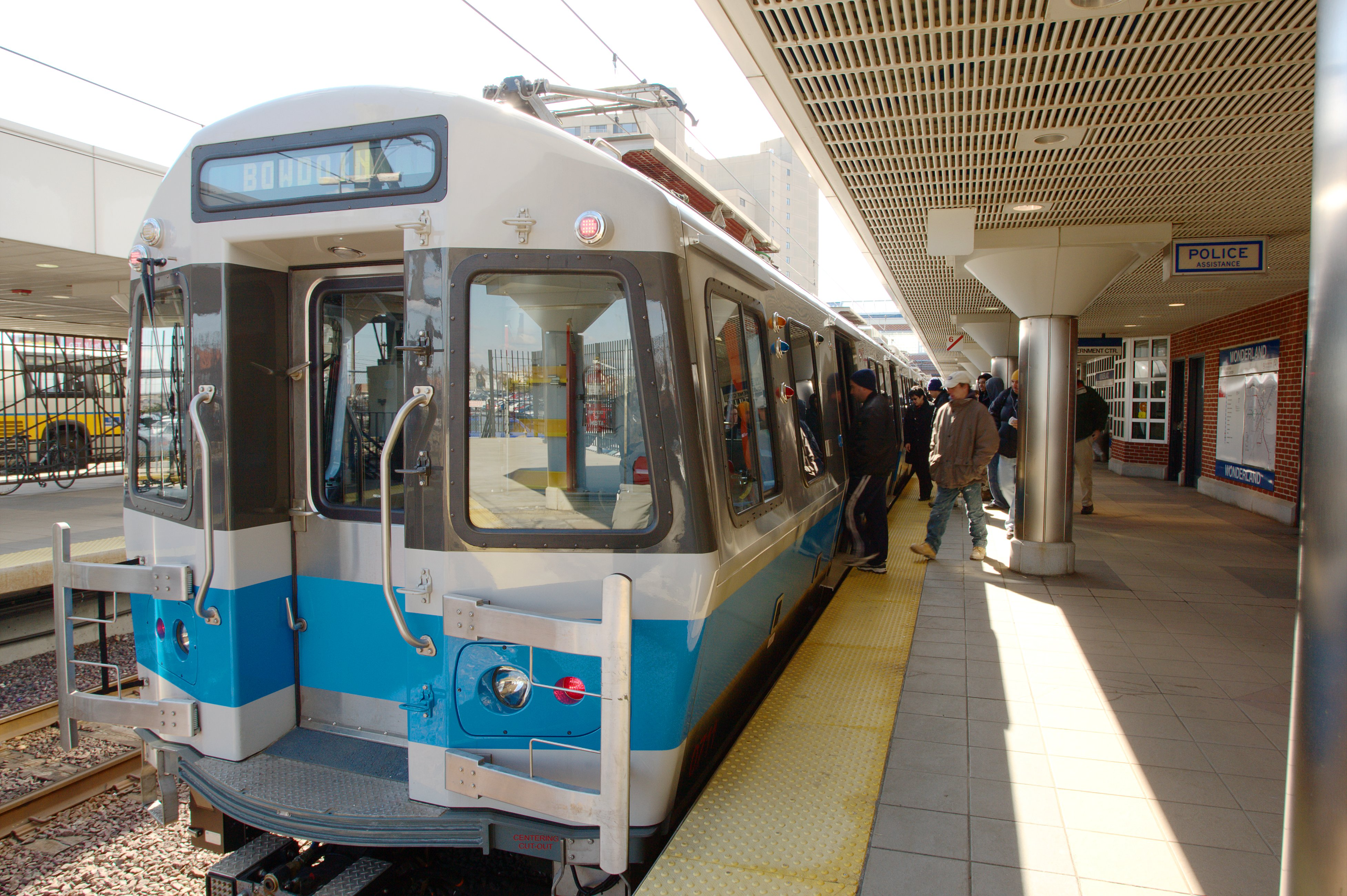 First revenue run of the new 0700 cars leaving Wonderland.